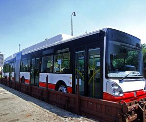 Trolleybus Škoda 25Tr with backup diesel engine in Bratislava